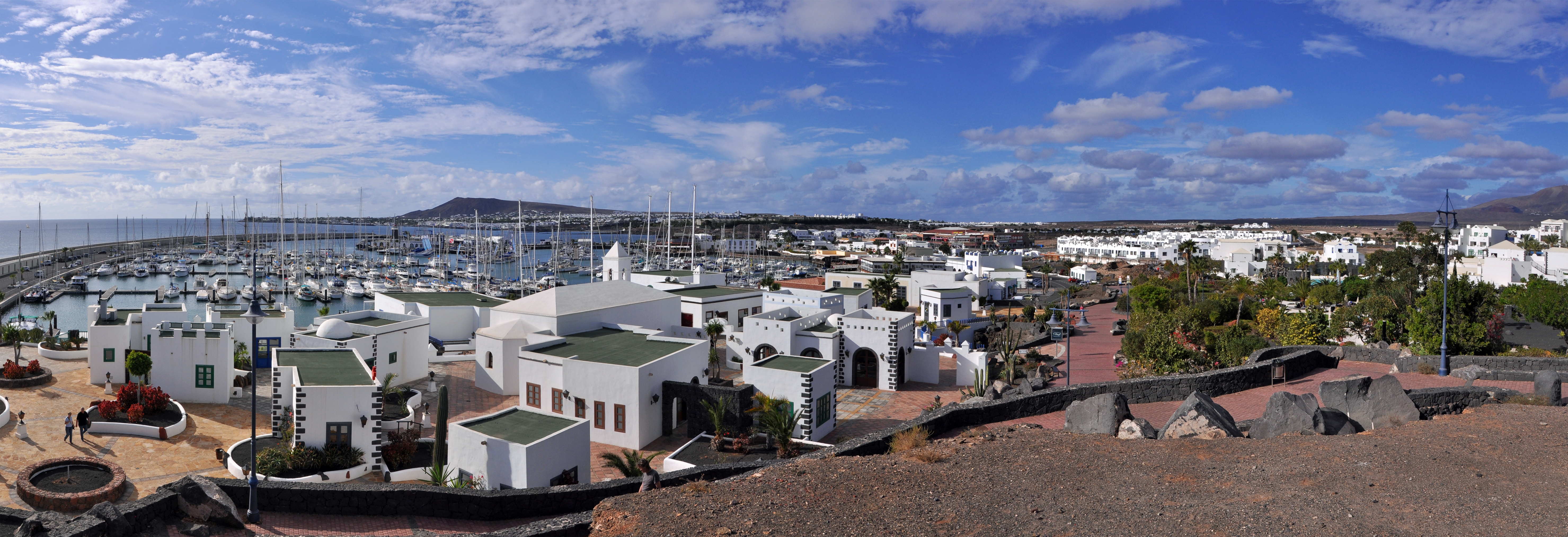 Lanzarote (Canary Islands): Playa Blanca, Marina Rubicón